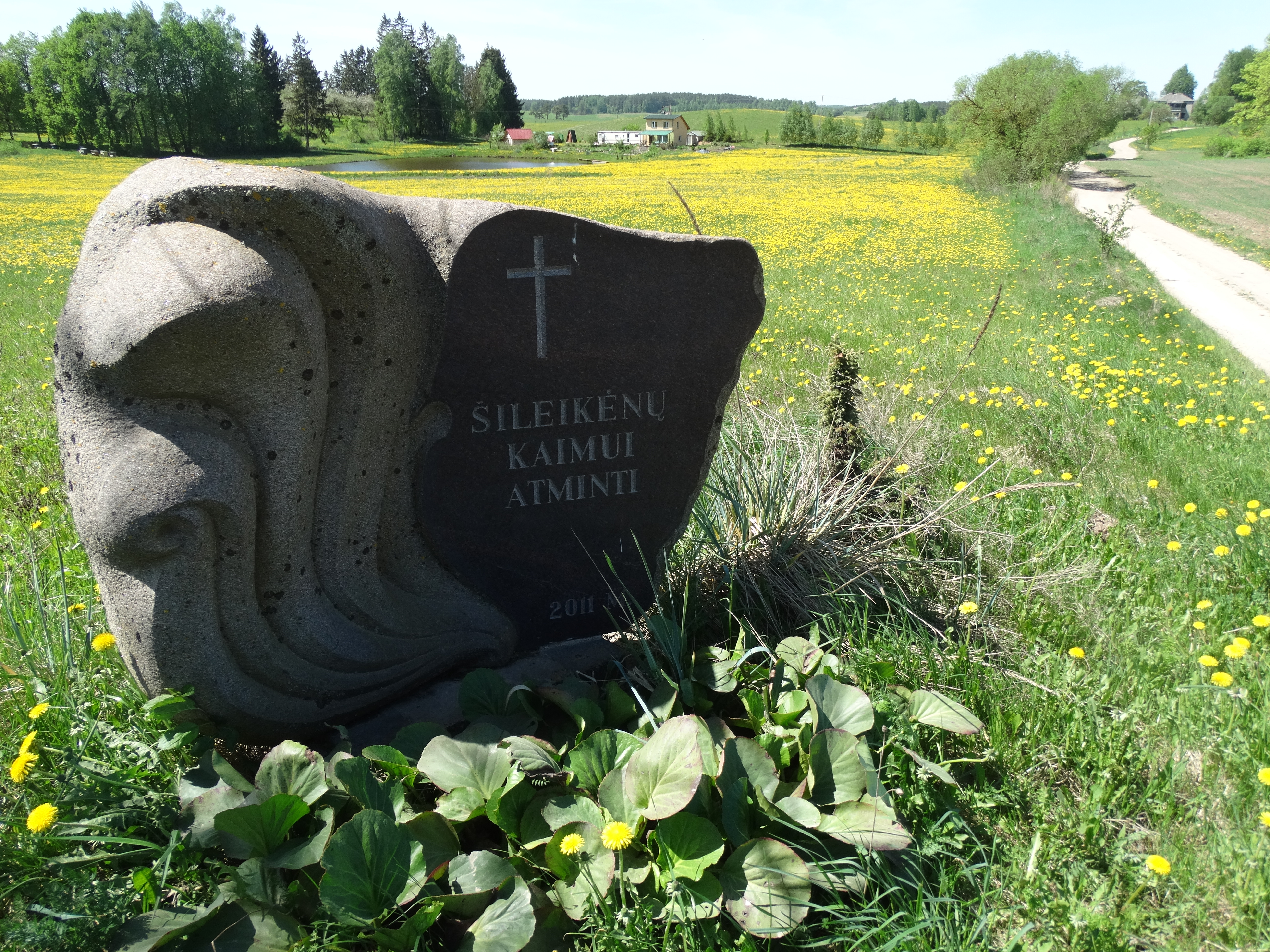 Šileikėnai, Molėtai District, Lithuania